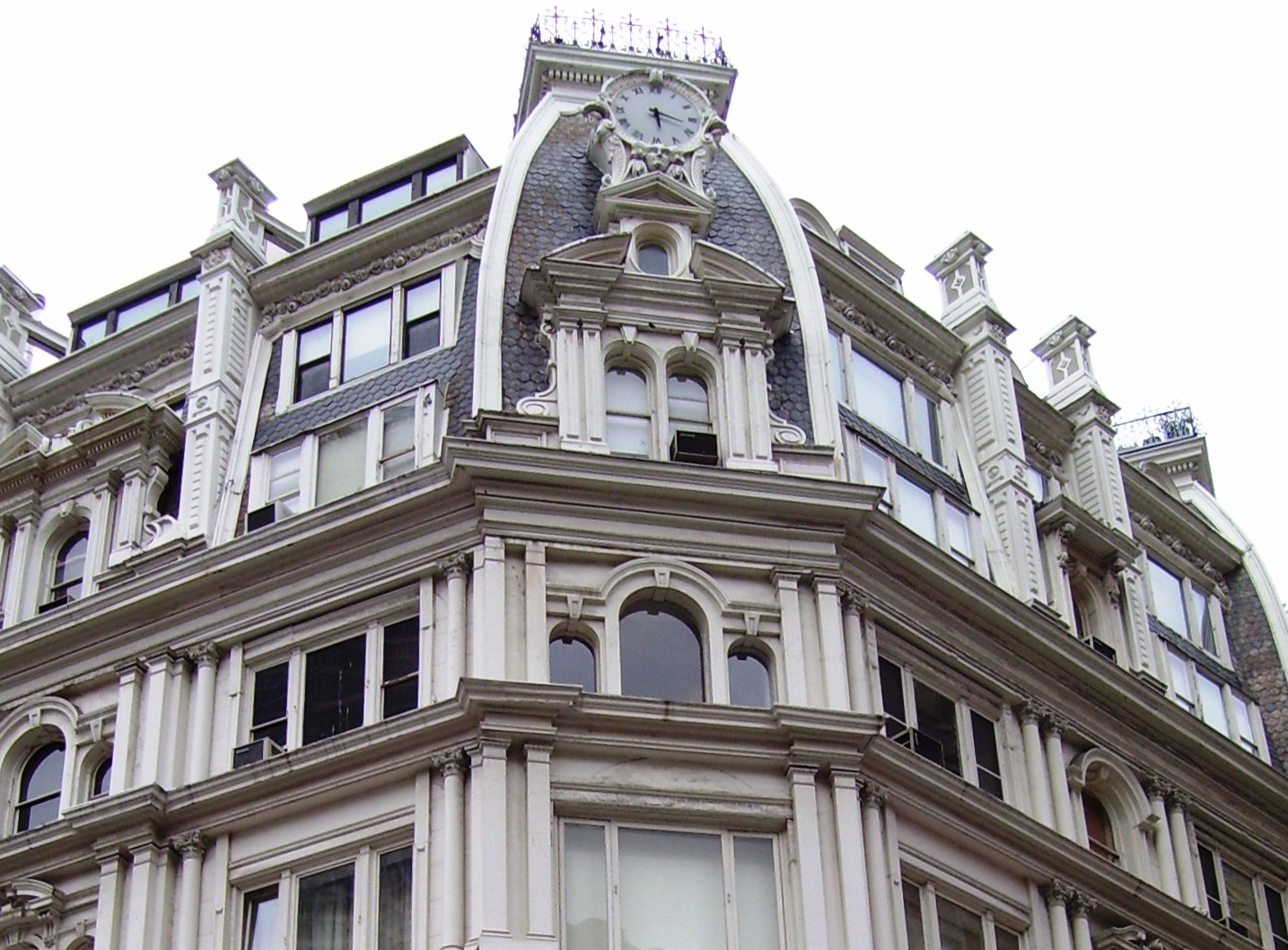 1200 Broadway at 29th St. in Manhattan, New York was formerly the Gilsey House Hotel. Designed 1869-1871 by Stephen D. Frank.